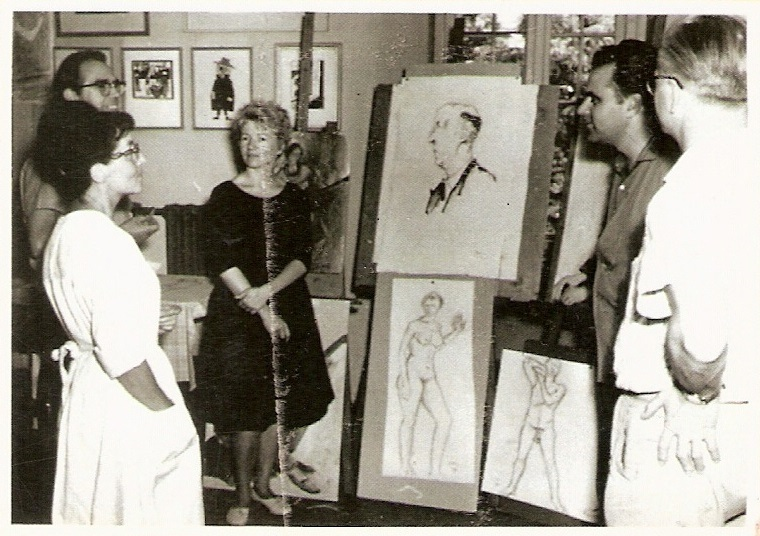 Im Rahmen einer Ausstellung mit Werken der Künstlerin wurde dieses Foto aufgenommen. Es zeigt die Künstlerin mit Ausstellungsbesuchern.